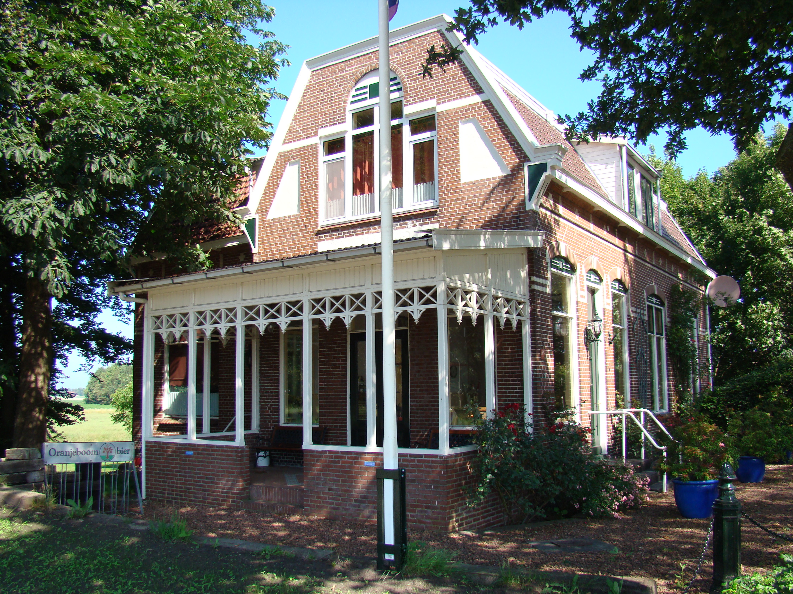 Impressions of Muntendam (Netherlands)